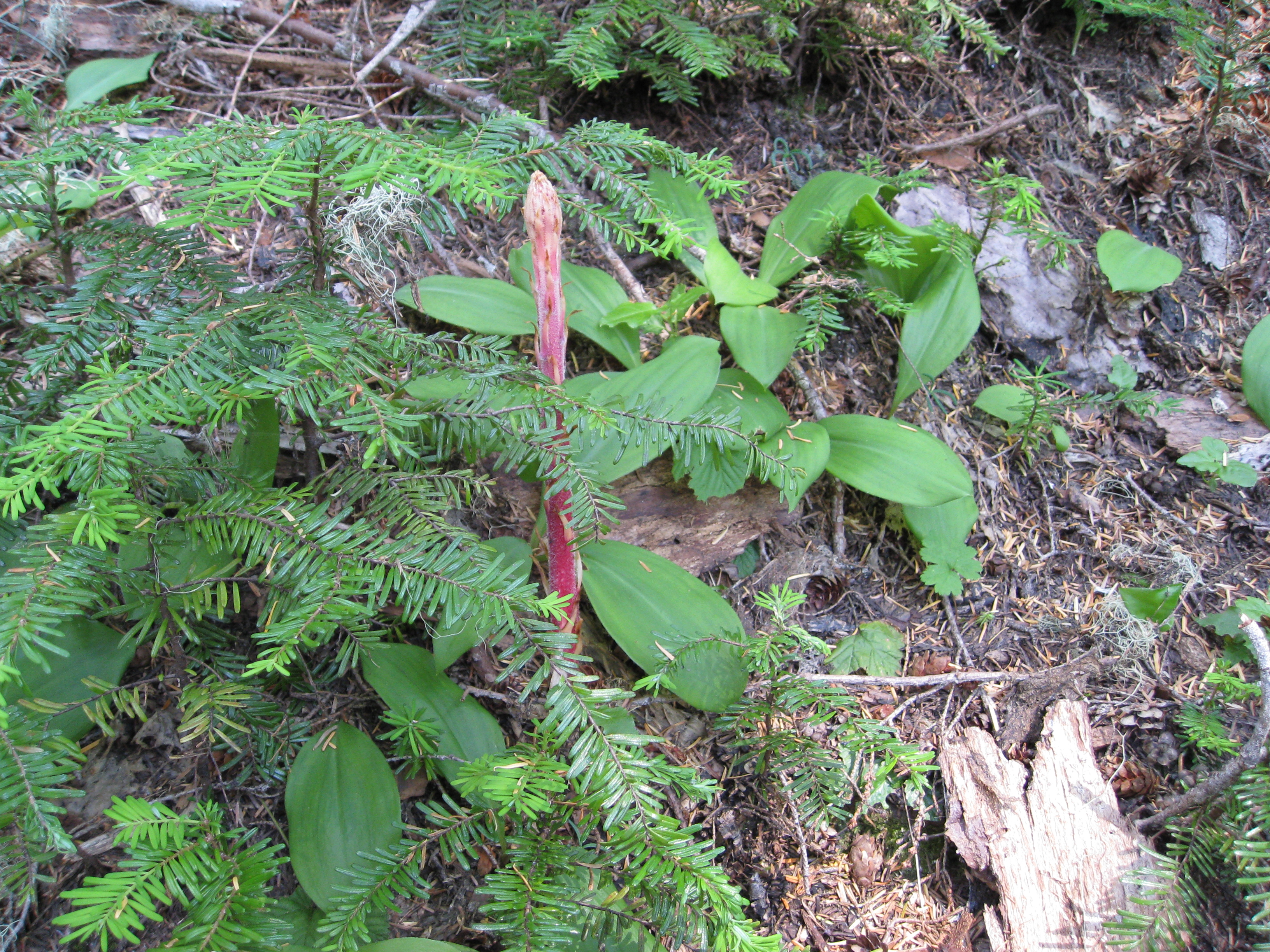 Allotropa virgata Candystick, Barber's Pole, Sugarstick Kingdom: Plantae Division: Magnoliophyta Class: Magnoliopsida Order: Ericales Family: Ericaceae Genus: Allotropa Binomial name Allotropa virgata Torr. & Gray An interesting fact from "Allotropa, candy cane, is a parasite which indicates Matsutake mycelia. It feeds on the mycelia, taking the nutrients it needs. The mycelia must be present if the "plant" is. Allotropa has been noted with all host trees wherever Matsutake grows in the Pacific Northwest. " i081608 242